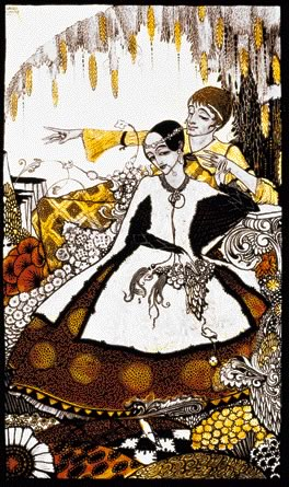 Seven dog-days we let pass Naming Queens in Glenmacnass, All the rare and royal names Wormy sheepskin yet retains